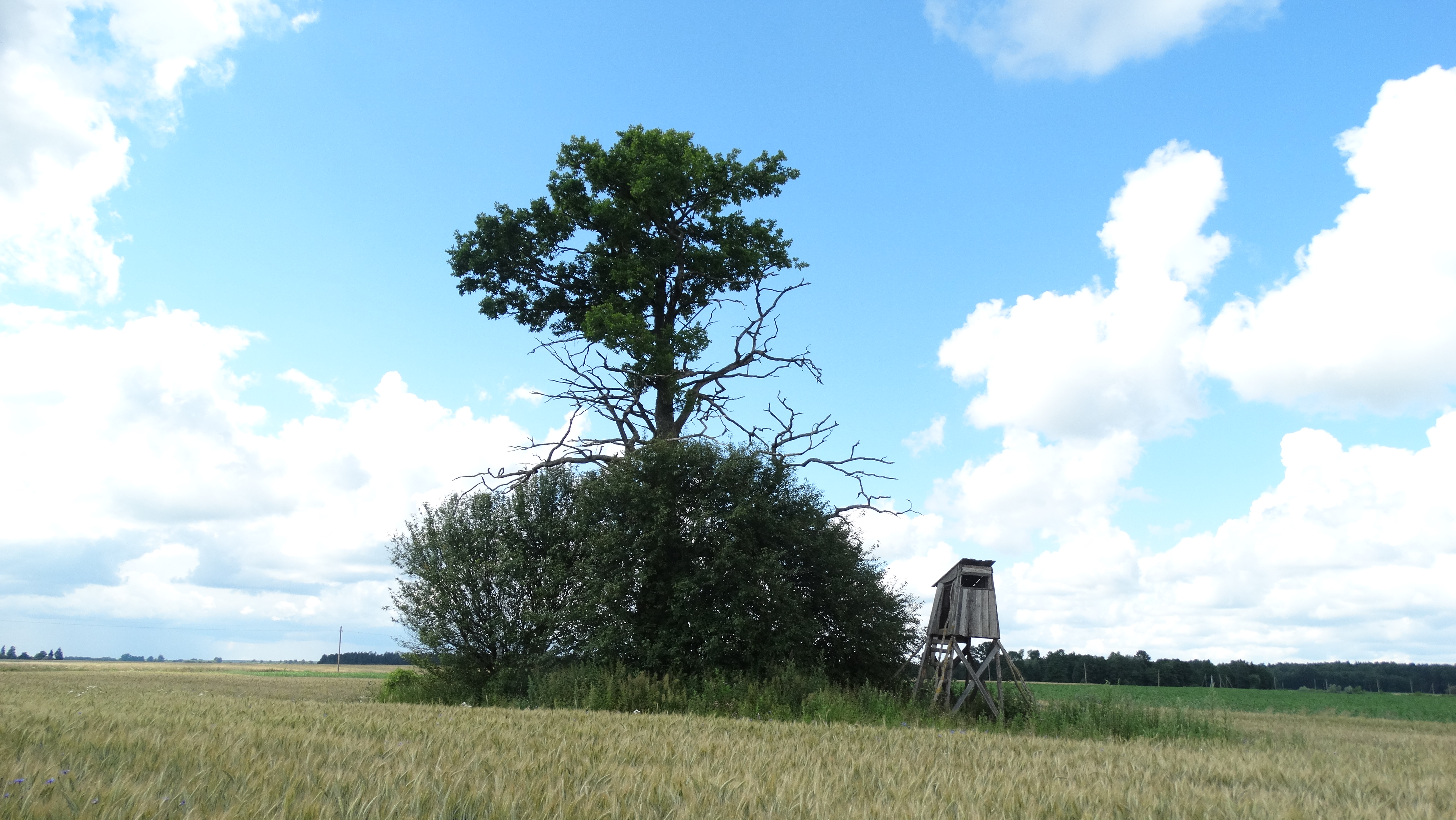 Oak tree, Ramoninė, Pasvalys District, Lithuania